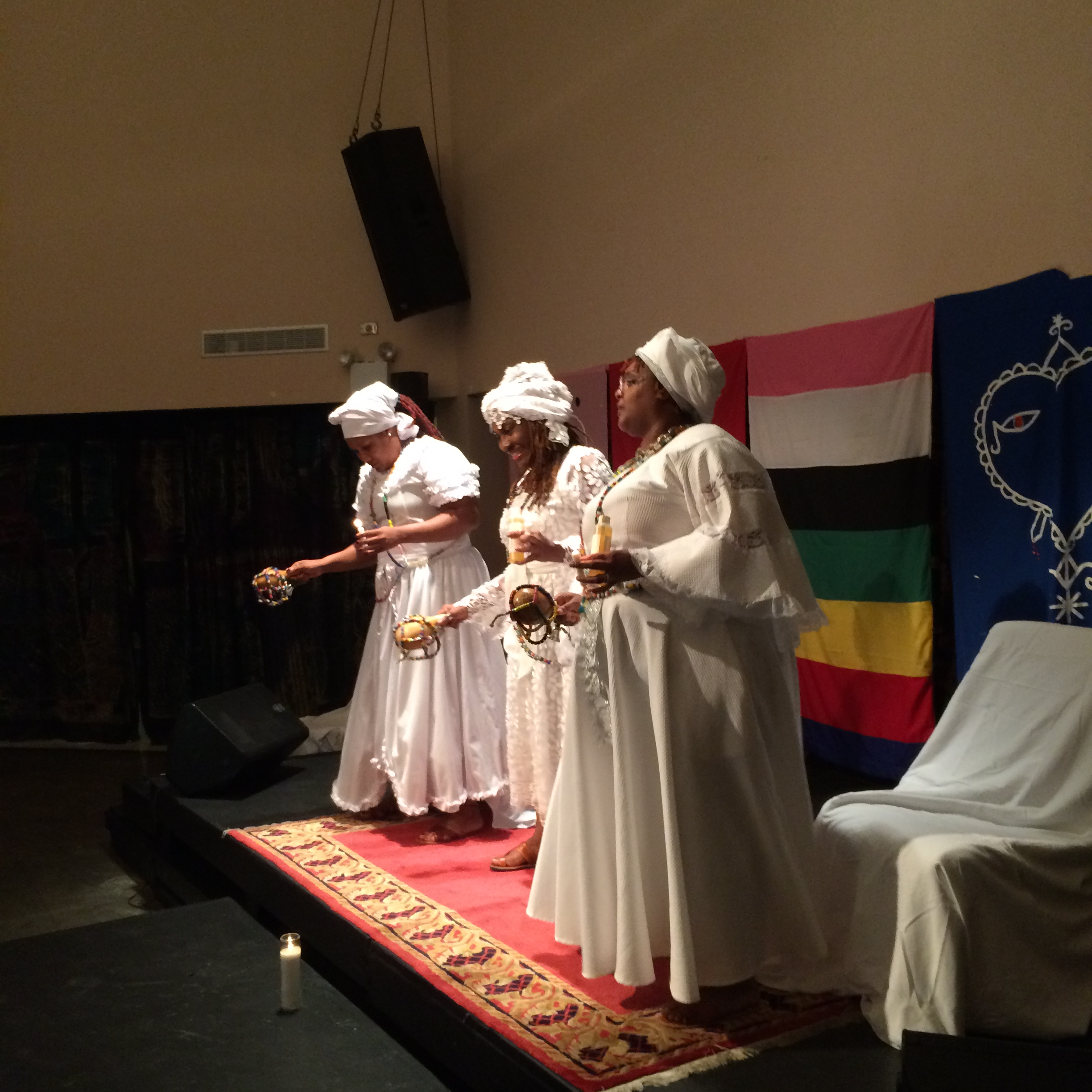 Swearing-in ceremony of the first ever GwètòDe's for the Haitian diaspora by Konfederasyon Nasyonal Vodouyizan Ayisyen (KNVA) held 2/25/2017 at National Black Theatre in Harlem NYC. GwètòDe's are the clergy of Haitian Vodou, representing the interests of Haitian vodouyizan in a specific geographic region. In this ceremony GwètòDe's were sworn in for the state of New York (Manbo Florence Jean-Joseph, pictured center), the state of Massachusetts (pictured left) and for Canada (Manbo Fabiola Abelard, pictured right). KNVA is a Haiti-based organization that designates the Ati National, the head of Haitian Vodou and all of the vodou clergy, for certification by the Haitian government. The Haitian Constitution of 1987 gave Vodouyizan the same rights as practitioners of other faiths.